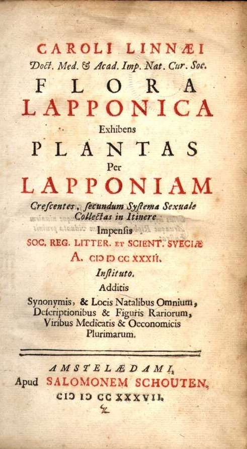 The title page of the book Flora Lapponica (1737) of swedish scientist Carl Linnaeus (1707-1778)